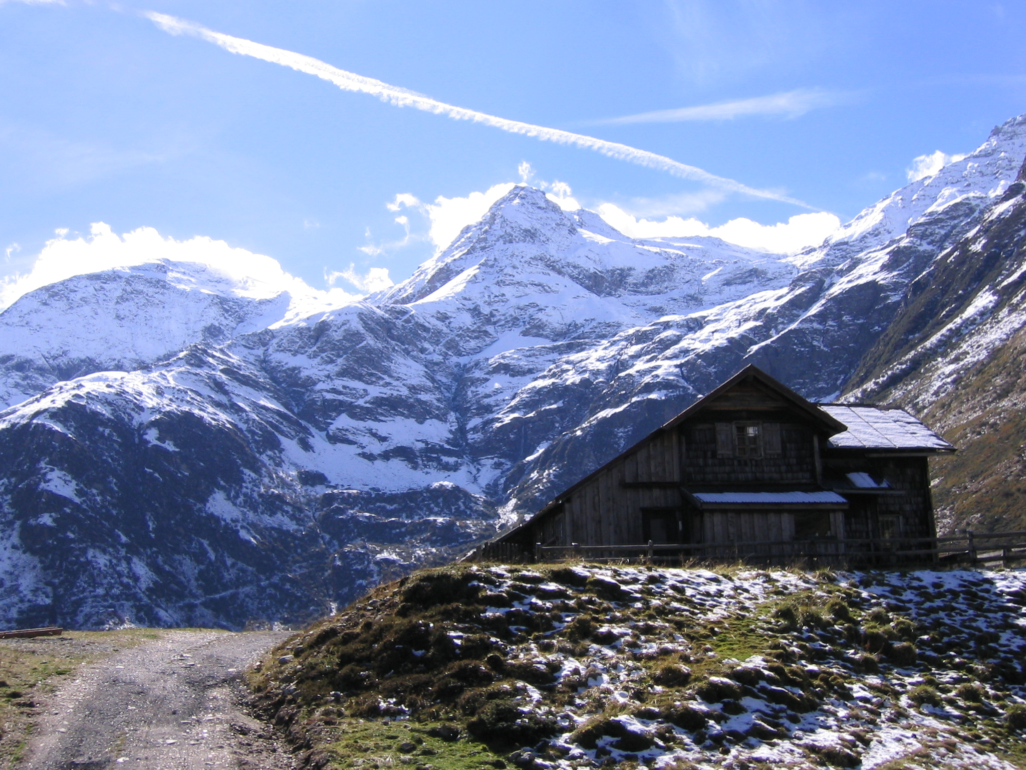 Sportgastein, Hohe Tauern. View southwards. Mountains from left Murauer Köpfe (2913 m) and Sparangerkopf (2922 m) in front Wasinger Kopf (2350 m)